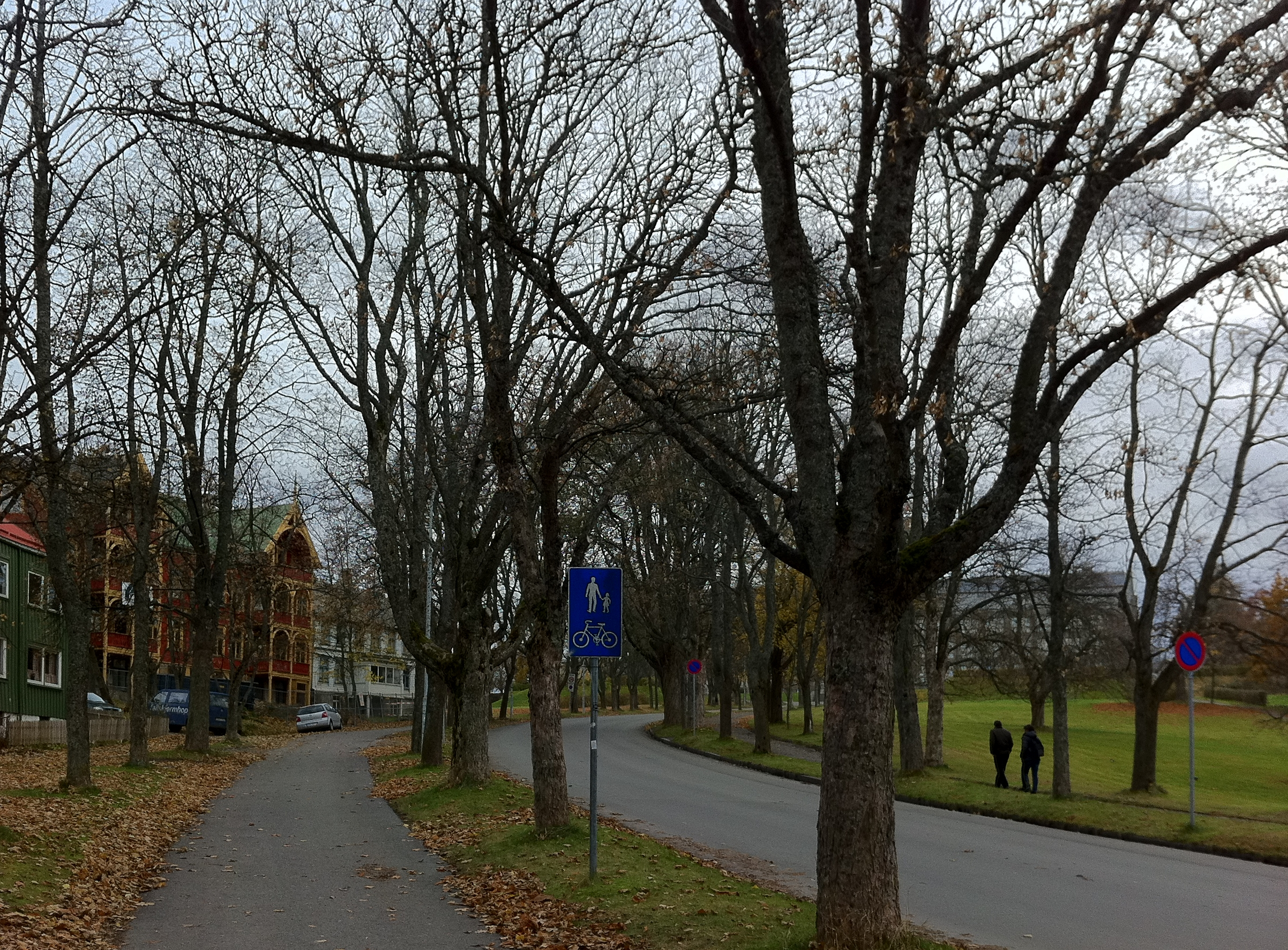 Høyskoleveien, also called Høyskolebakken, leading up to Campus NTNU Gløshaugen, Trondheim.